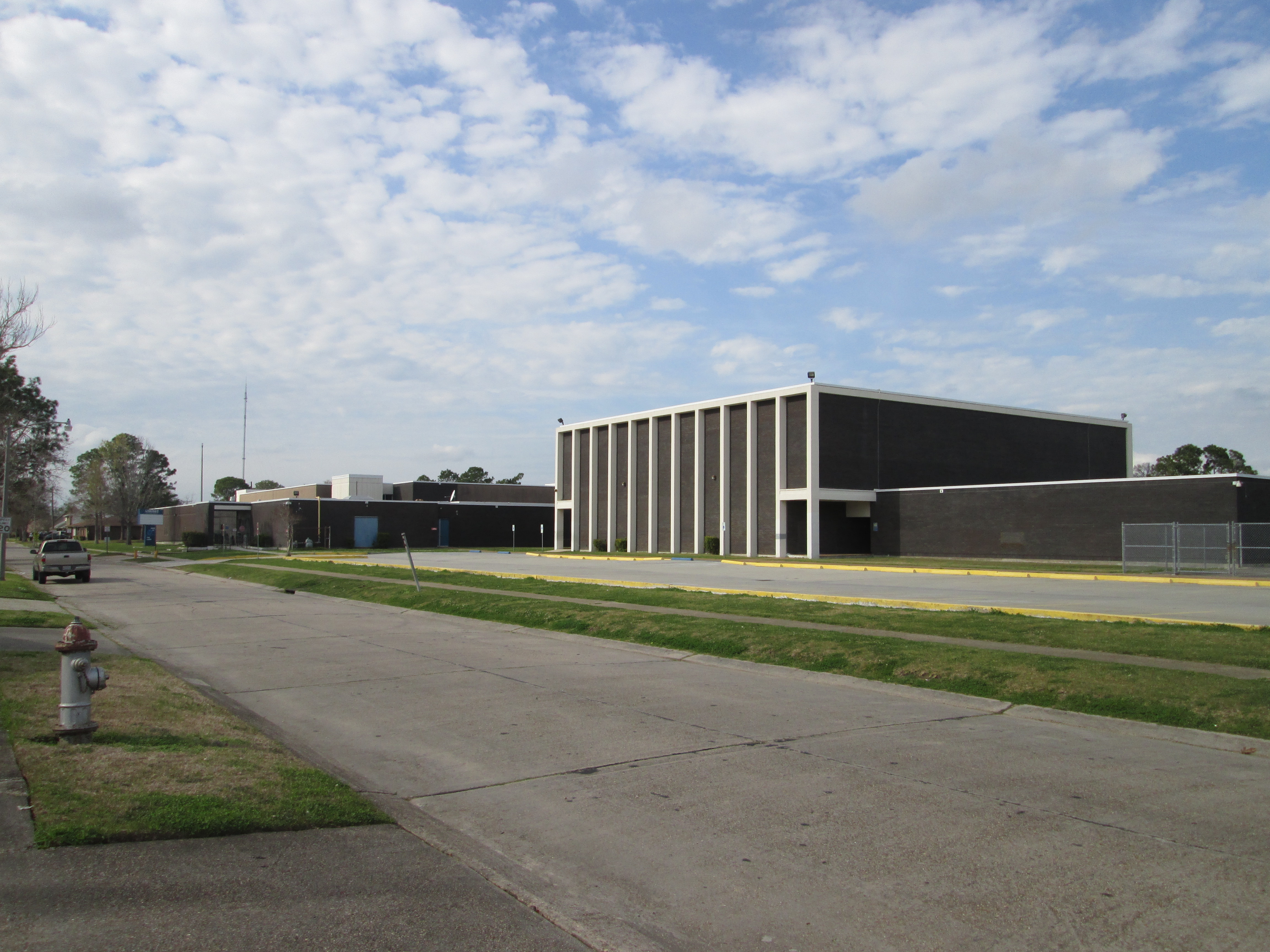 Livaudais School, Terrytown, Louisiana. Opened in 1969 as a middle school; from 1978 to 2004 in was a junior high school, and since has been a middle school again.